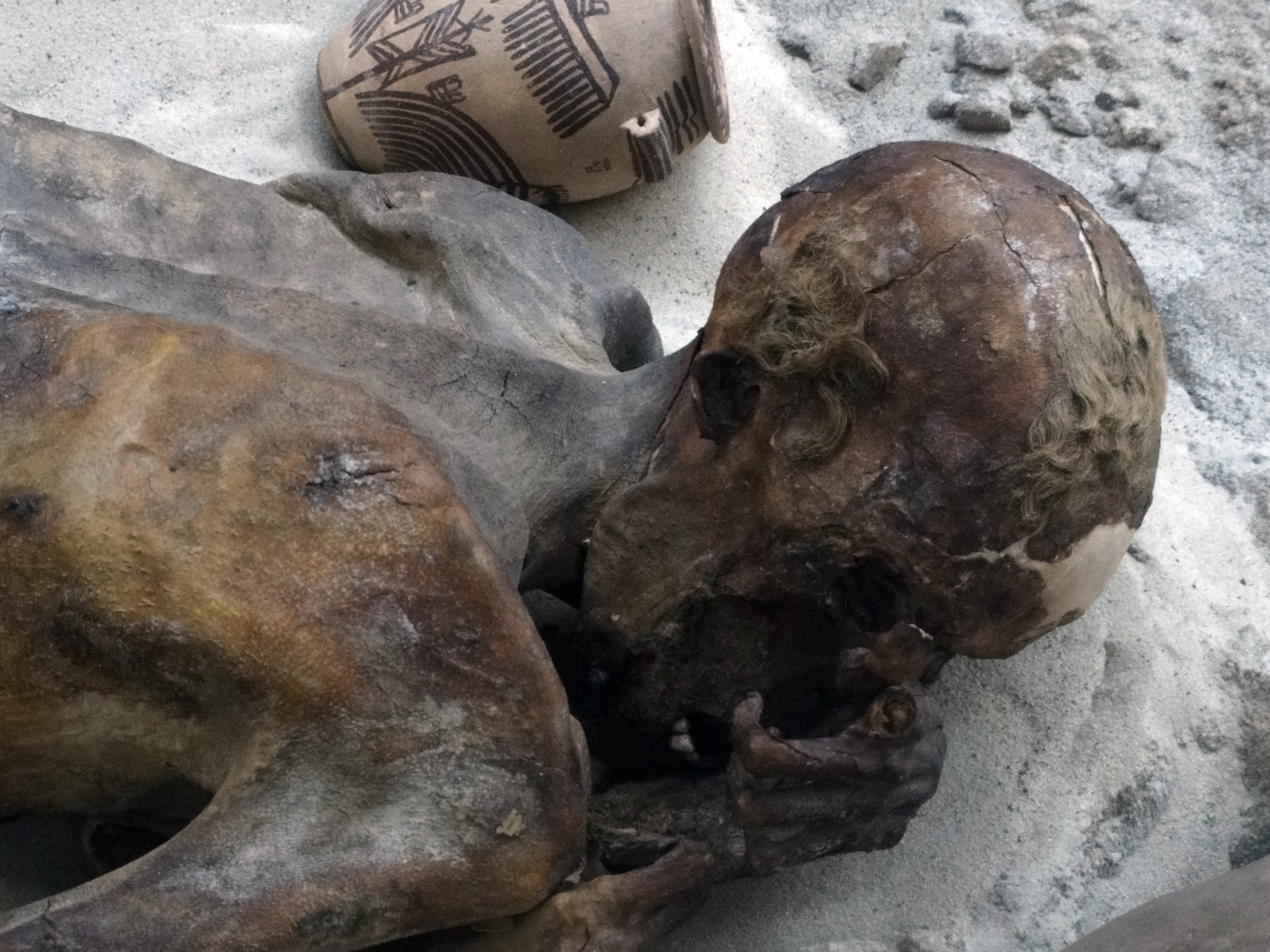 Gebelein predynastic mummy in the British Museum dating from 3400 BC